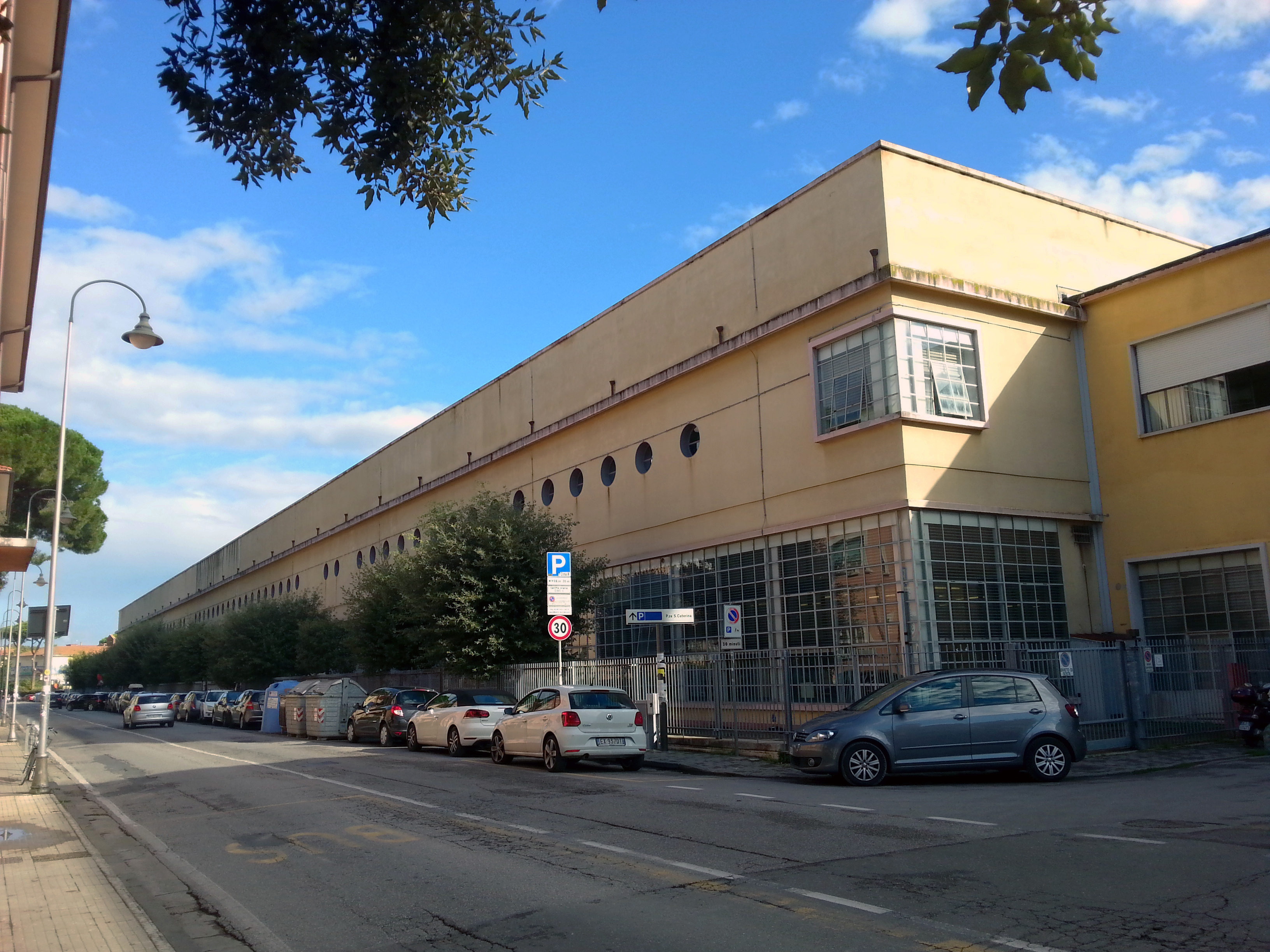 Former Marzotto textile plant (which now hosts some University of Pisa buildings) - Pisa, Italy